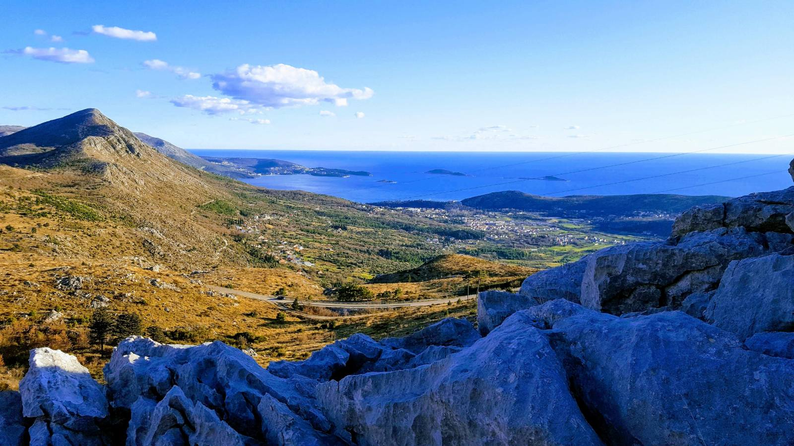 Panorama view on the Adriatic coast from Ivanica